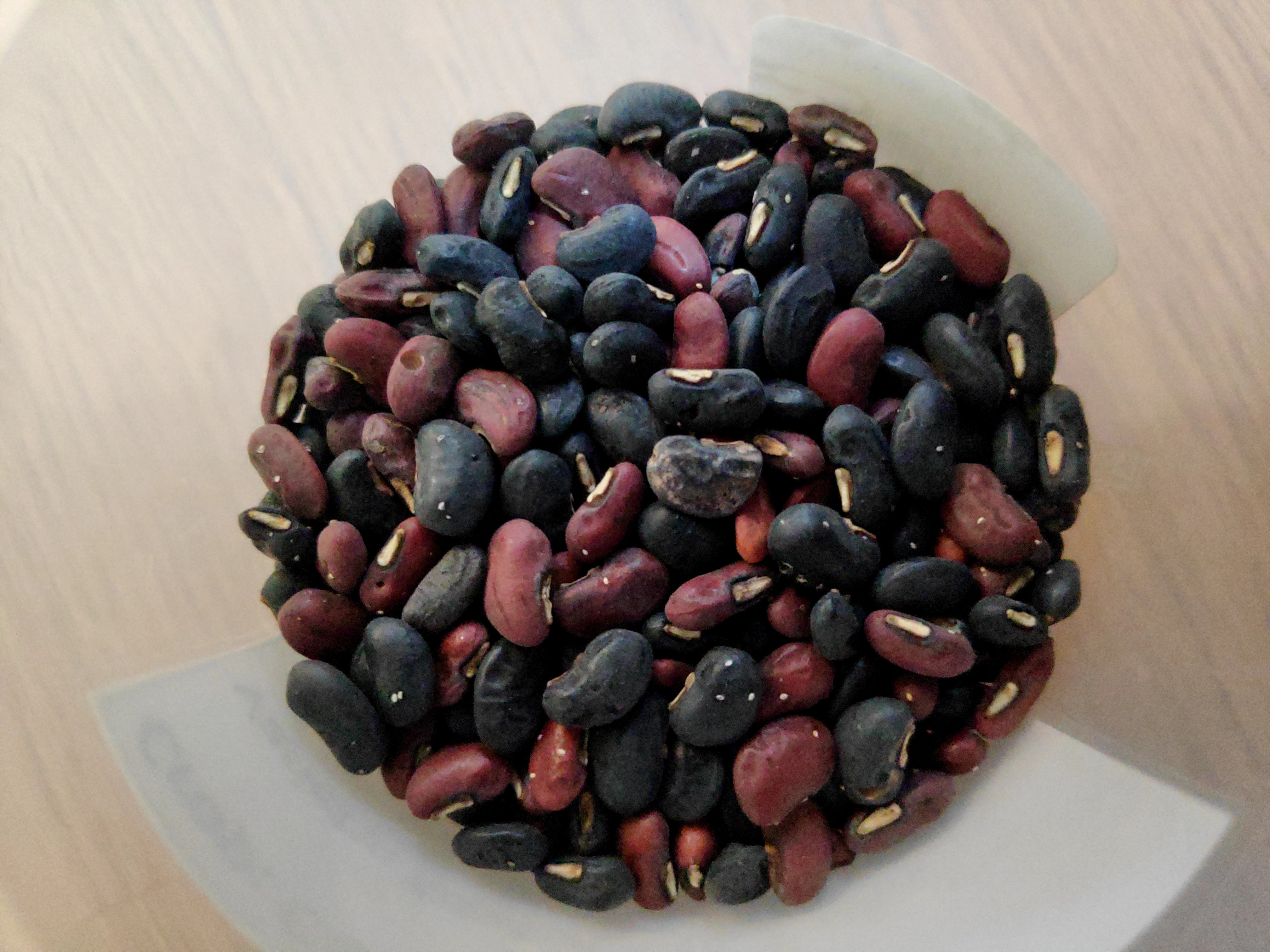 Makaibodi Cowpea from Nepal.